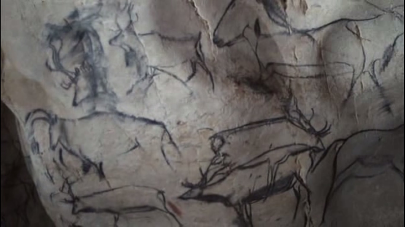 Deer Drawing from the Chauvet Cave, France.